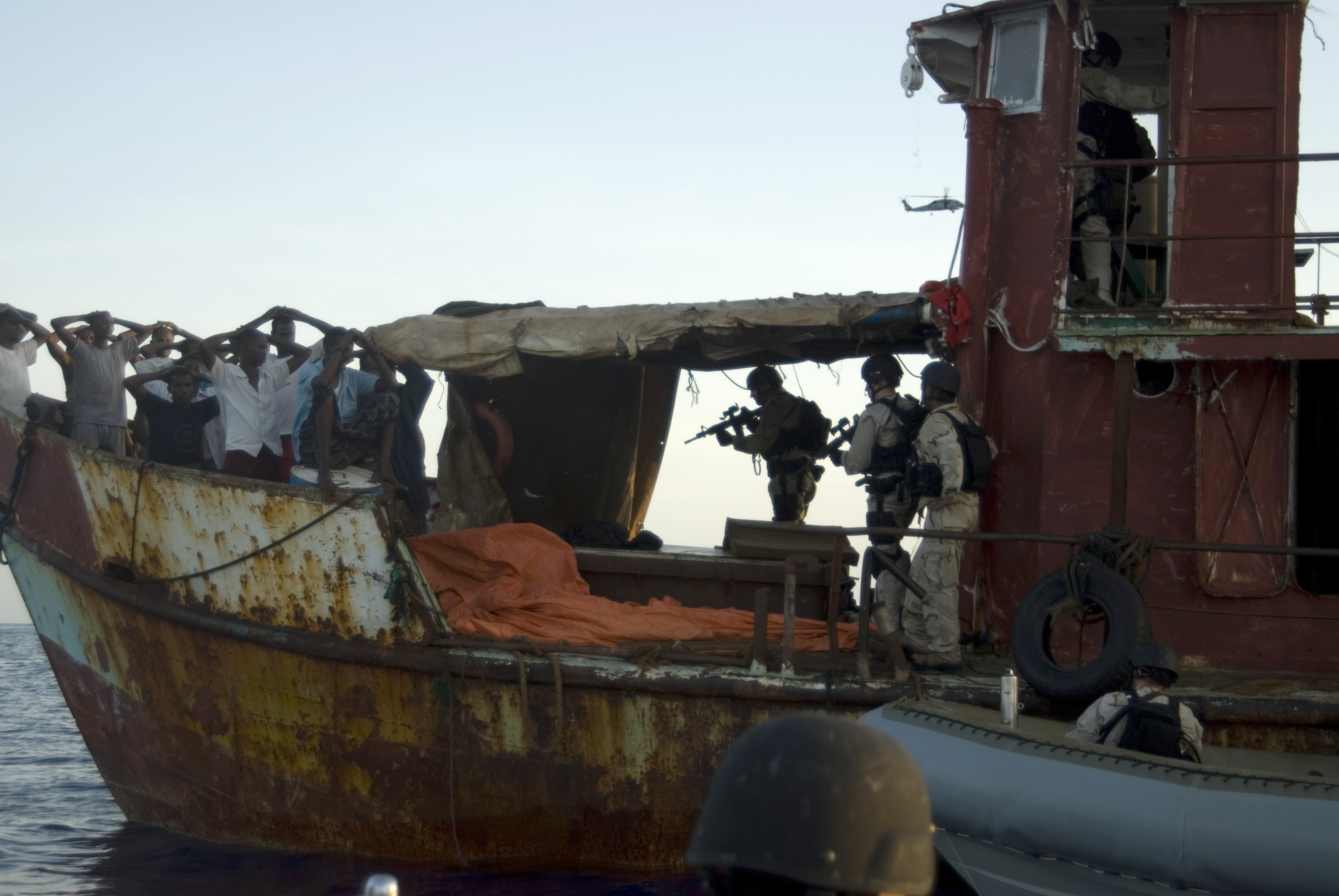 Members of a visit, board, search and seizure team assigned to USS Gettysburg (CG 64) and U.S. Coast Guard Tactical Law Enforcement Team South Detachment 409 detain suspected pirates after responding to a merchant vessel distress signal while operating in the Combined Maritime Forces area of responsibility in the Gulf of Aden May 13, 2009. The service members are conducting the operation in support of Combined Task Force 151, a multinational task force established to counter piracy operations and to actively deter, disrupt and suppress piracy in order to protect global maritime security and secure freedom of navigation for all nations.